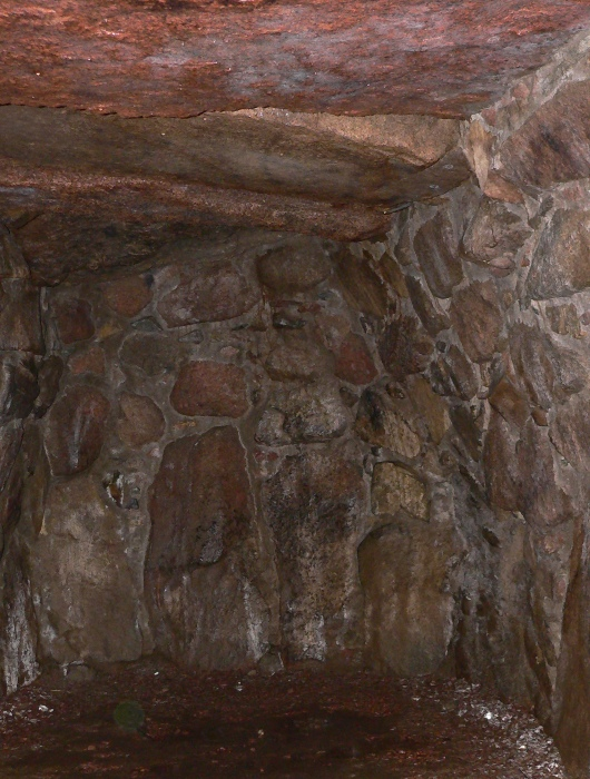 Culsh Earth House, Aberdeenshire, Scotland - interior